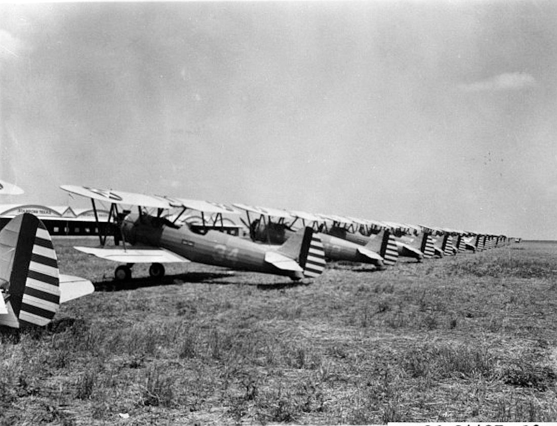 Boeing PT-17 Stearman biplanes at Arledge Field Texas